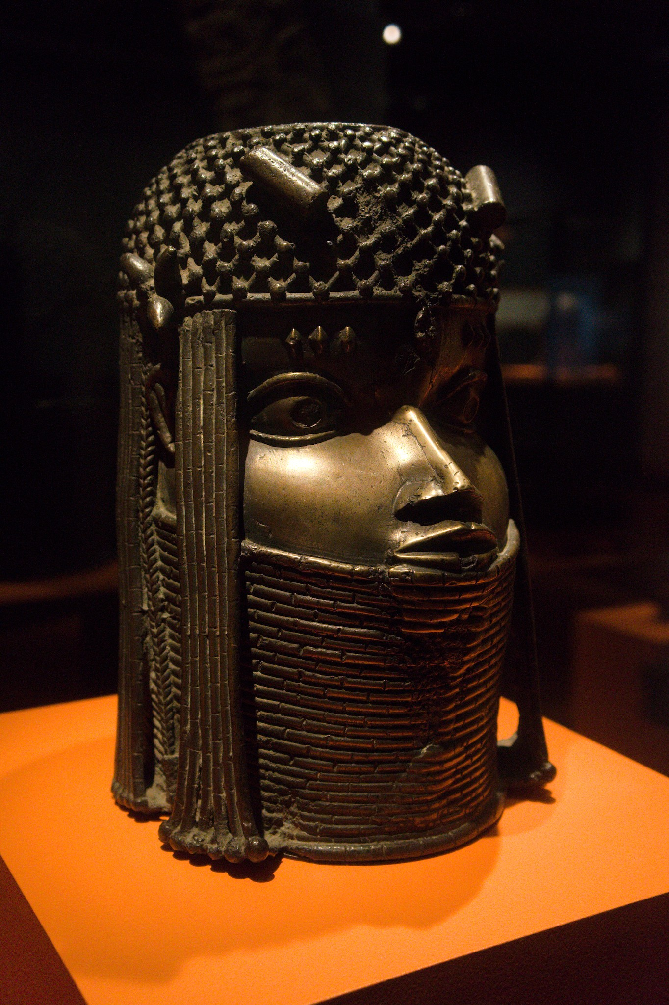 17th century commemorative bronze head of an Oba intended for an ancestral altar in the royal palace in Benin, Nigeria. This is a photo of an artwork at the Museum of Ethnography in Sweden with the identifier: 1907.44.0383